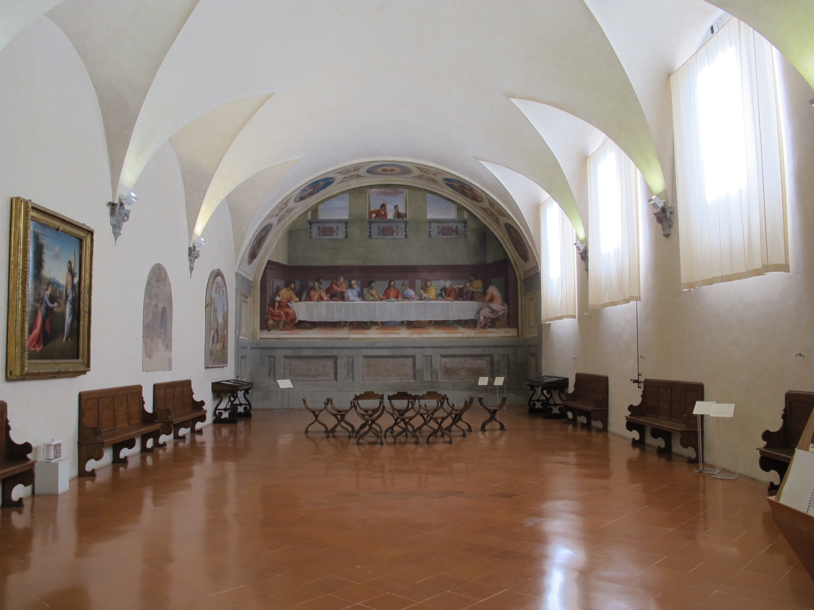 arch with medallions displaying the Trinity and the saints of the Vallombrosan order.